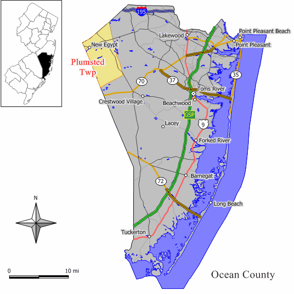 Source: Jim Irwin Original work by Jim Irwin, December 2005.